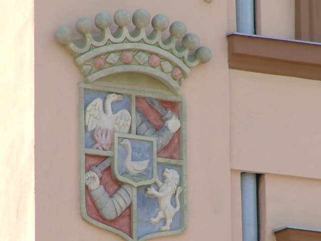 Rhedey Palace coat of arms, Cluj-Napoca, Romania